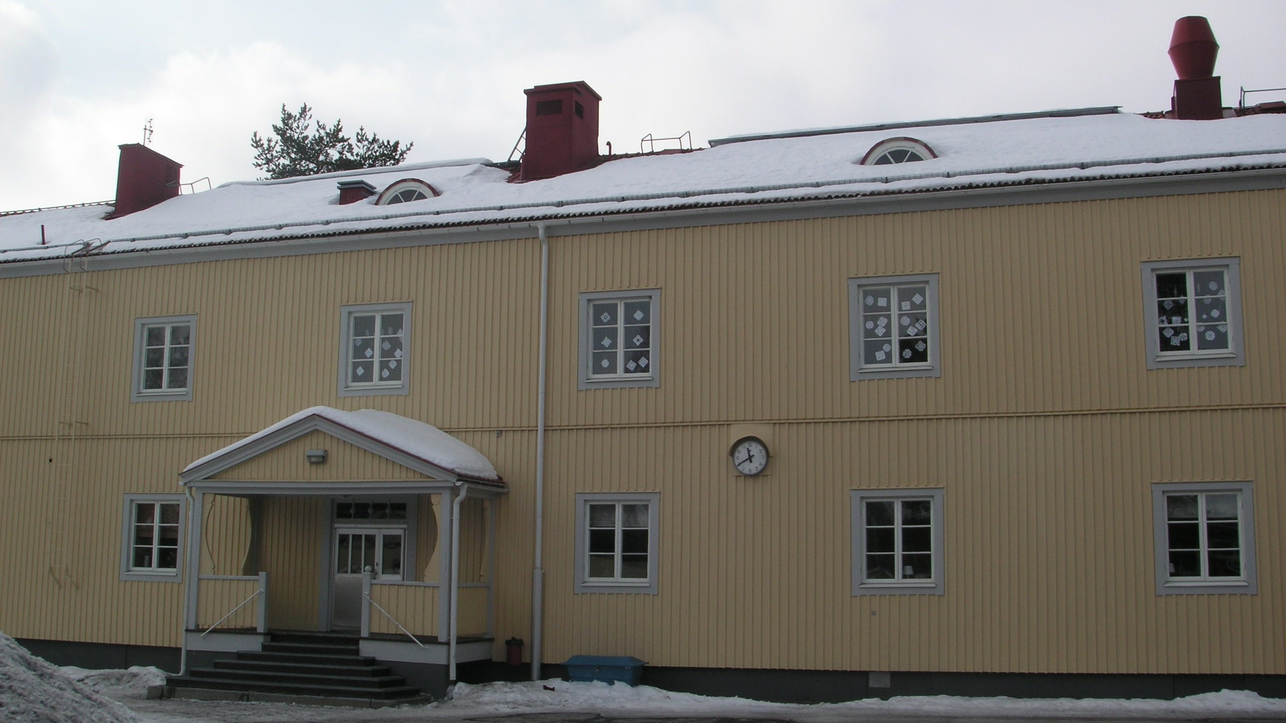 "Sofiehemskolan" (elementary school) in Umeå, Sweden.